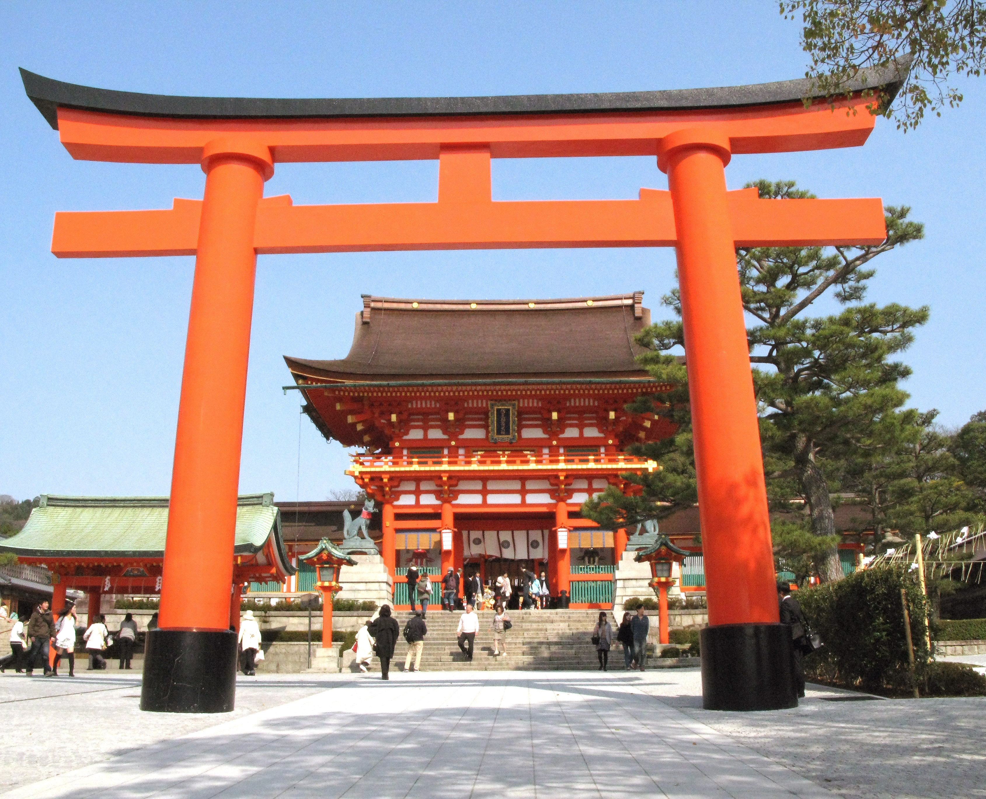 Fushimi Inari-taisha new omotesando